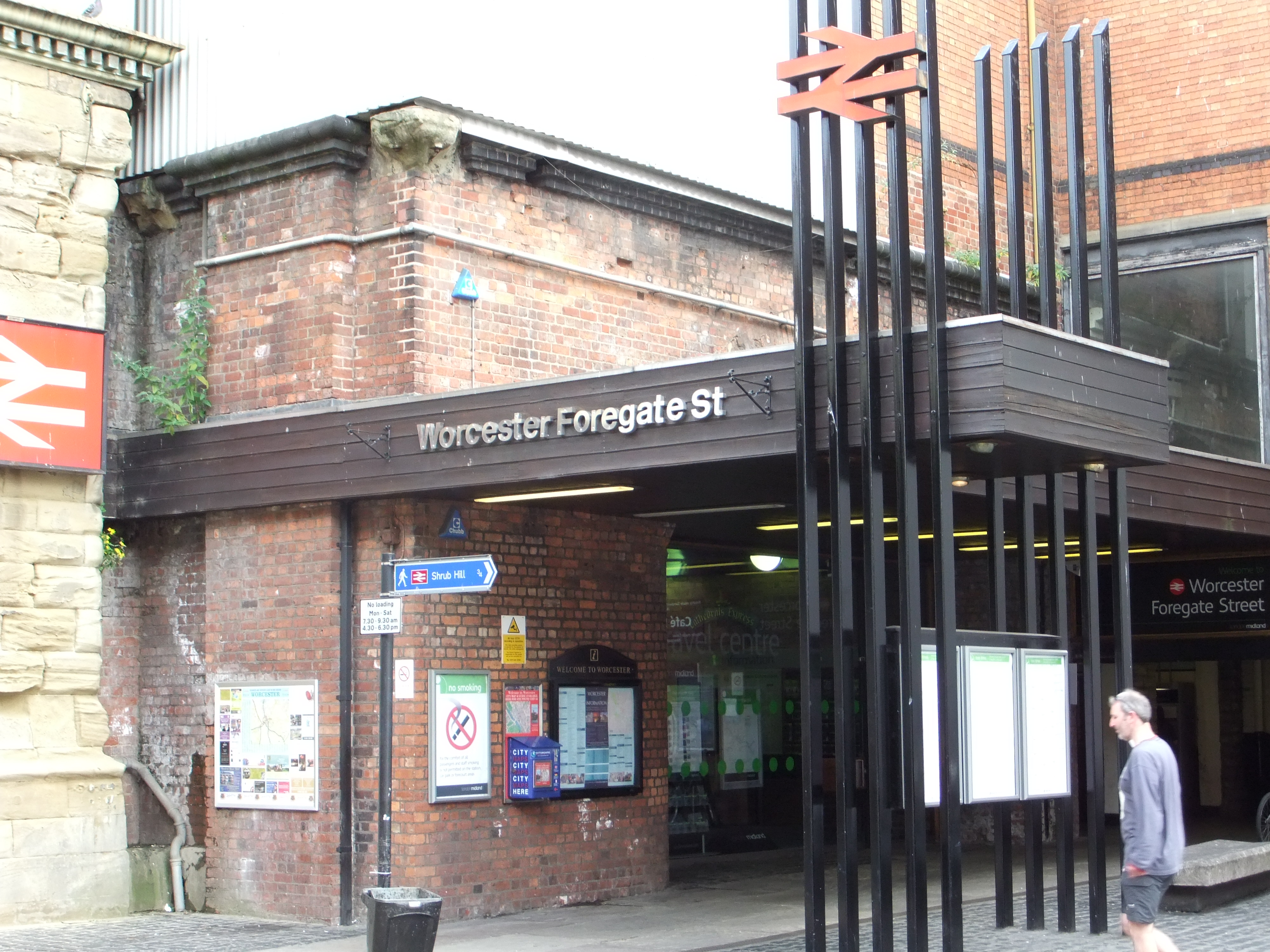 Worcester Foregate Street railway station, England.